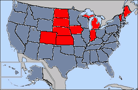 Elections in the USA 1940 - results by state